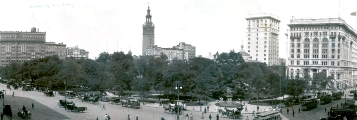 Madison Square, New York, 1908 showing the second Madison Square Garden, built in 1890, in the center background Title: Madison Square, New York Related Names: E. Chickering & Co. , copyright claimant Date Created/Published: c1907. Medium: 1 photographic print : silver printing-out paper ; 11.5 x 39.5 in. Reproduction Number: LC-USZ62-119643 (b&w film copy neg. of right section) LC-USZ62-119642 (b&w film copy neg. of left section) Rights Advisory: No known restrictions on publication. Call Number: PAN US GEOG - New York no. 166 (E size) [P&P] Repository: Library of Congress Prints and Photographs Division Washington, D.C. 20540 USA Notes: H96563 U.S. Copyright Office; Copyright deposit; E. Chickering & Co.; July 15, 1907. Subjects: Street railroads; Commercial streets; United States--New York (State)--New York. Format: Panoramic photographs; Silver printing-out paper prints Collections: Panoramic Photographs Part of: Panoramic photographs (Library of Congress) Bookmark This Record